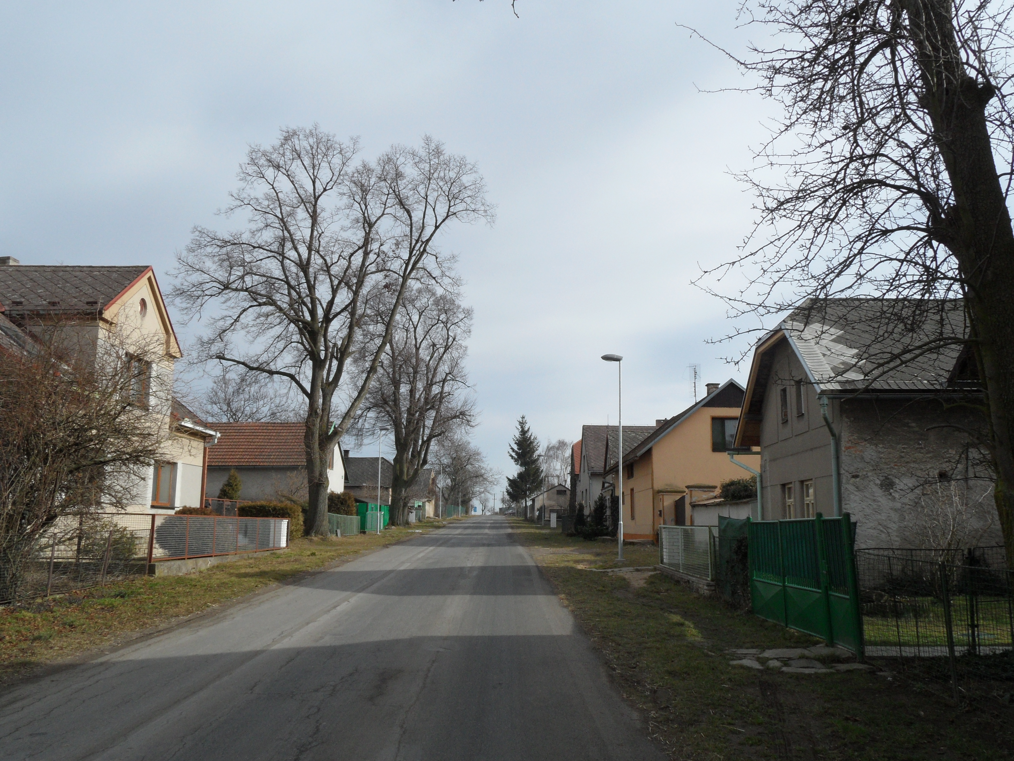 Karlov t. Doubrava B. Houses and Trees along Road to Tuchotice and Nová Lhota, Kutná Hora District, the Czech Republic.